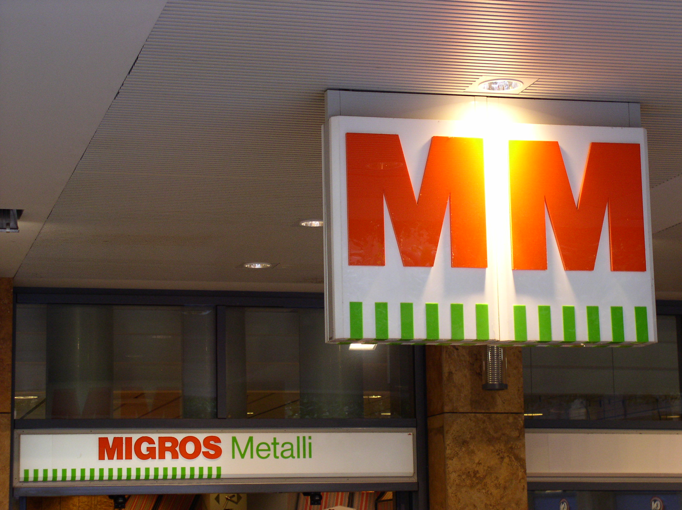 Description: MM-Migros im Metalli in Zug Source: photo taken by me, October 2004 Photographer: Baikonur